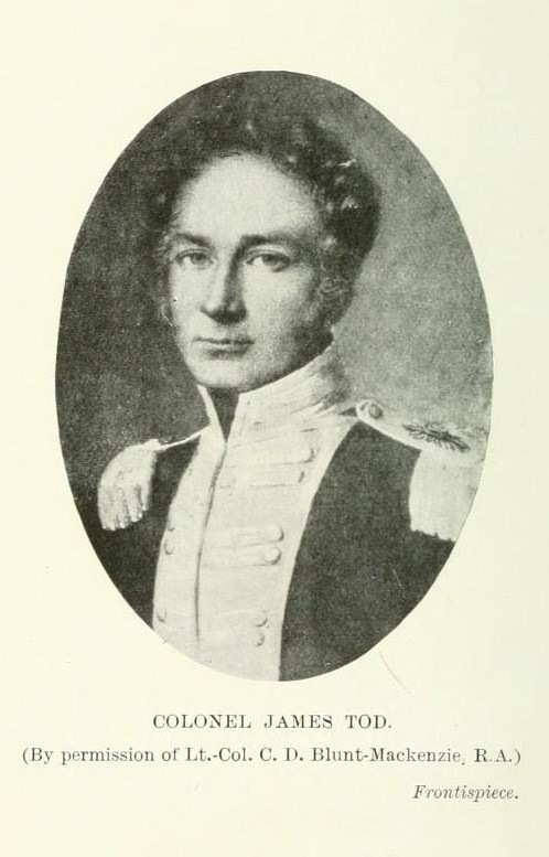 Painting of Lt. Col James Tod from, frontispiece, 1920 edition of his Annals and antiquities of Rajasthan, volume 2 edited by William Crooke, Oxford University Press, 1920